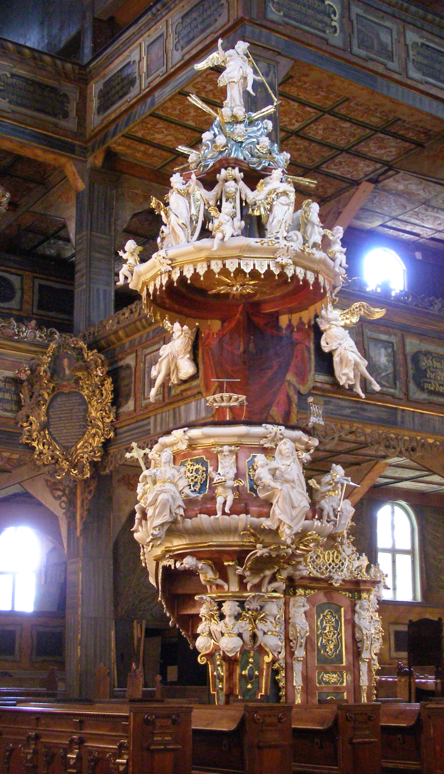 Świdnica - Church of Peace